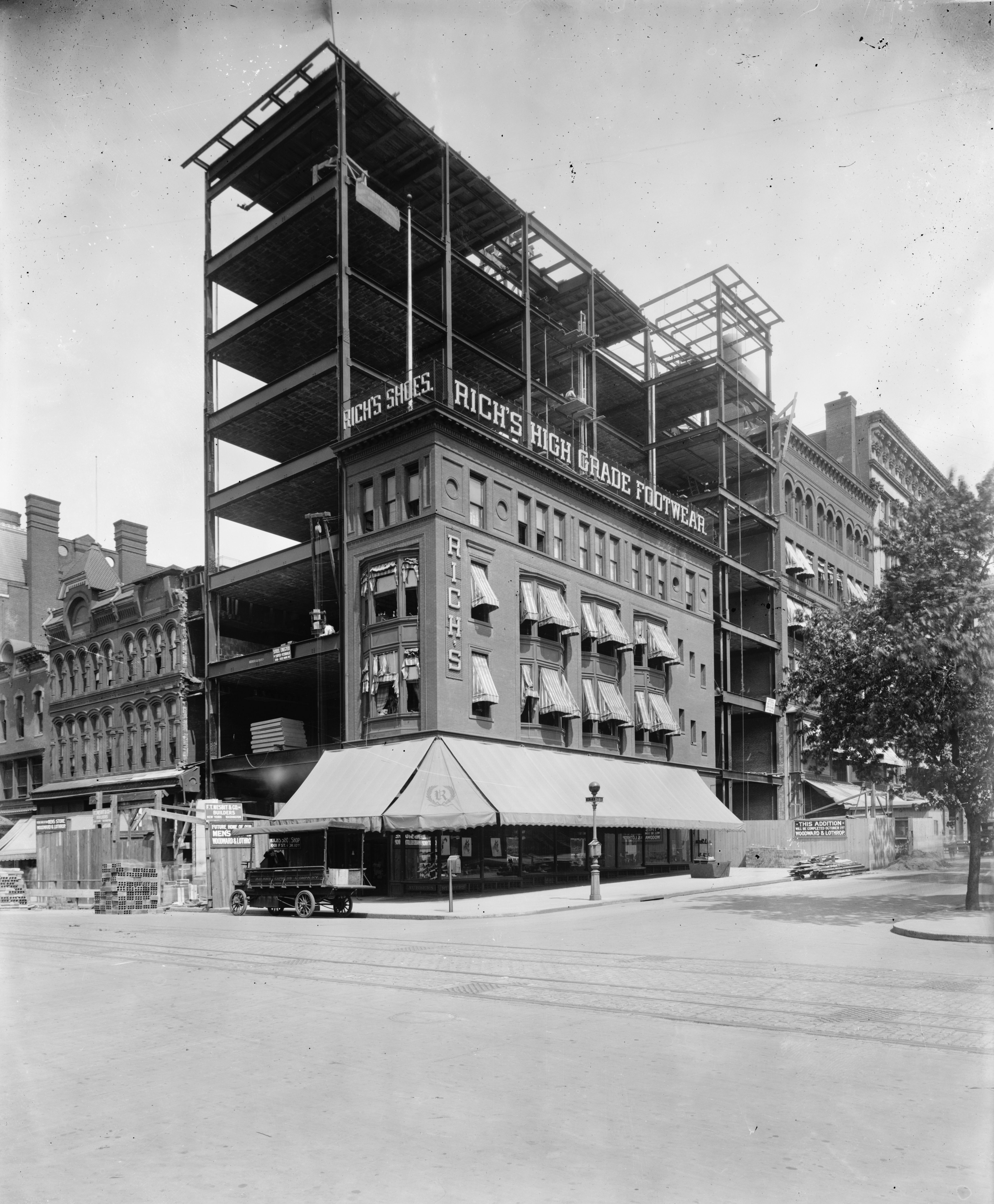 Construction of the Woodward & Lothrop flagship store in Washington, D.C. The smaller building, then home to Rich's Shoes, is now occupied by the Washington location of Madame Tussaud's. The building being constructed is now occupied by H&M, Zara, Environmental Protection Agency offices, and other commerical tenants.